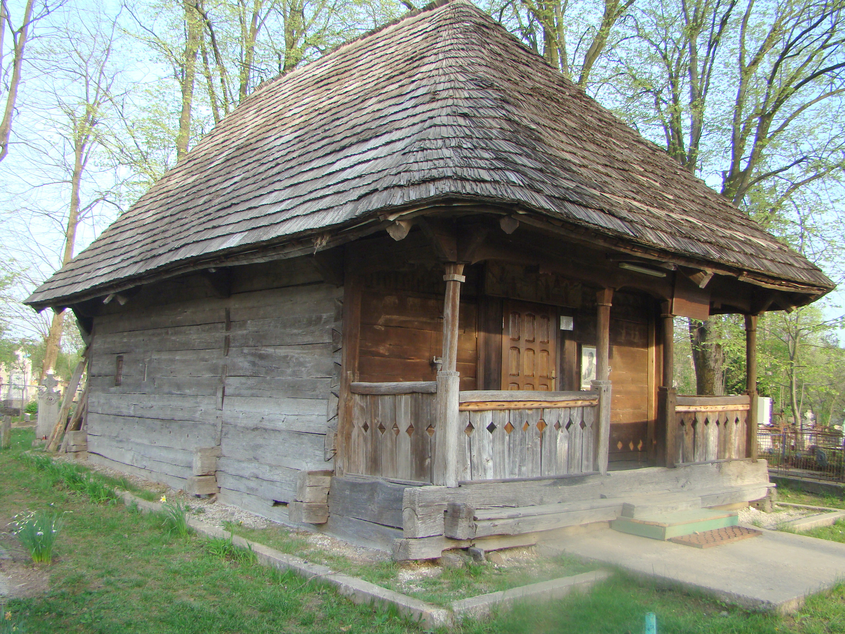 St. Basil's wooden church in Pieptani, Gorj county, Romania